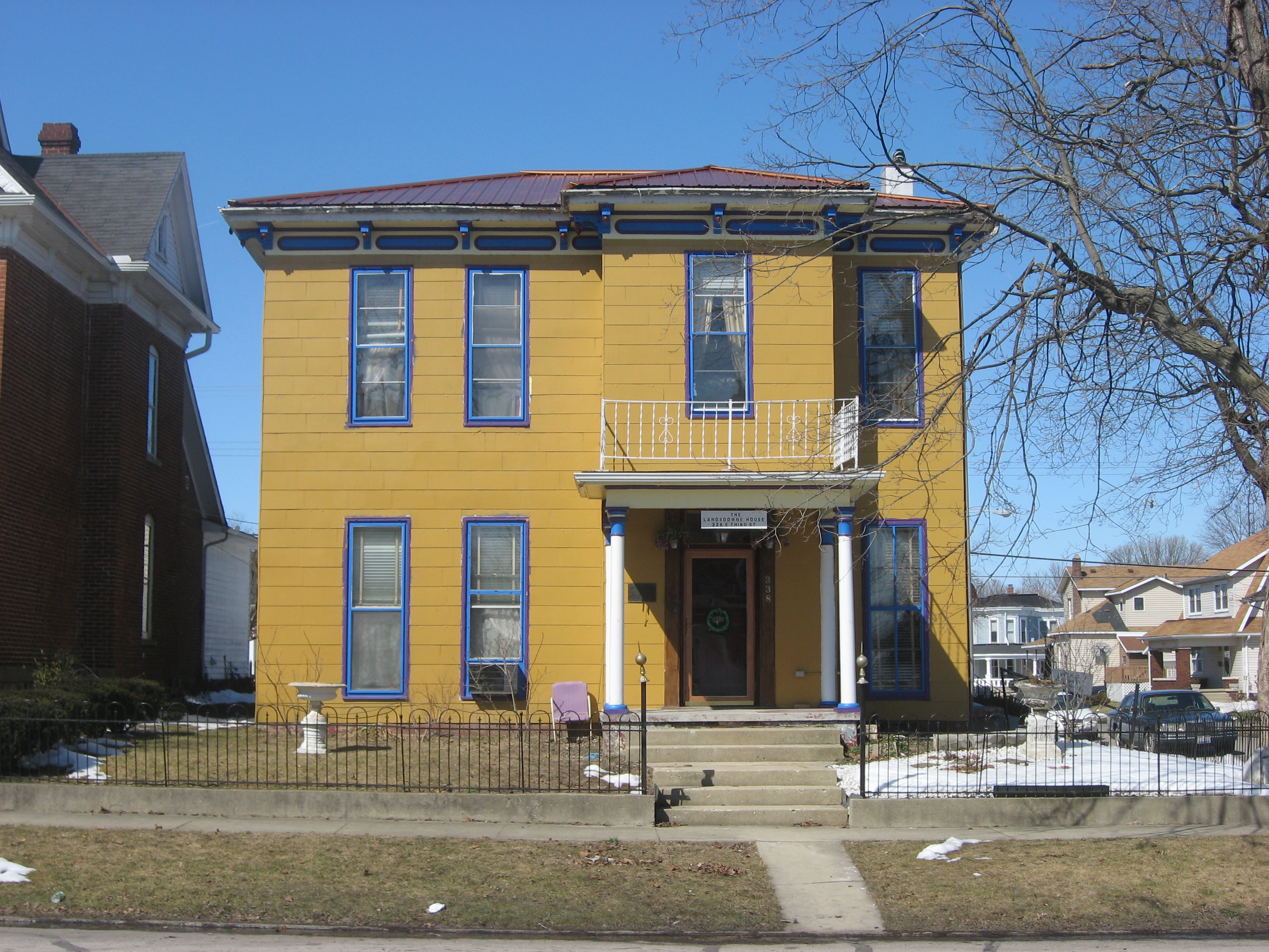 Front of the Lansdowne House, located at 338 E. Third Street in Greenville, Ohio, United States. Built in 1870, it is listed on the National Register of Historic Places.